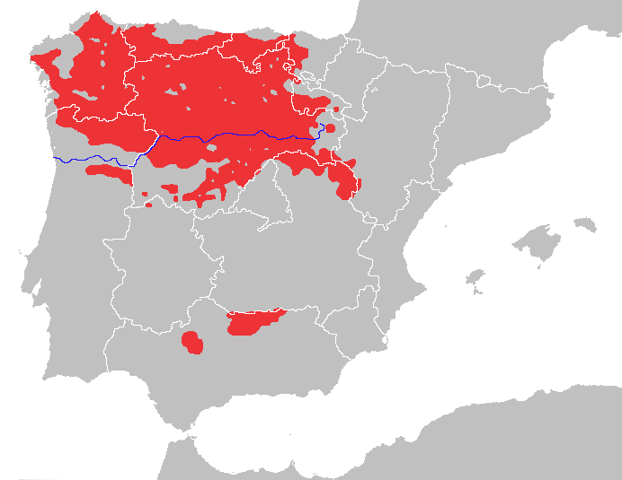 Approximate geographical range of the Iberian wolf (Canis lupus signatus).